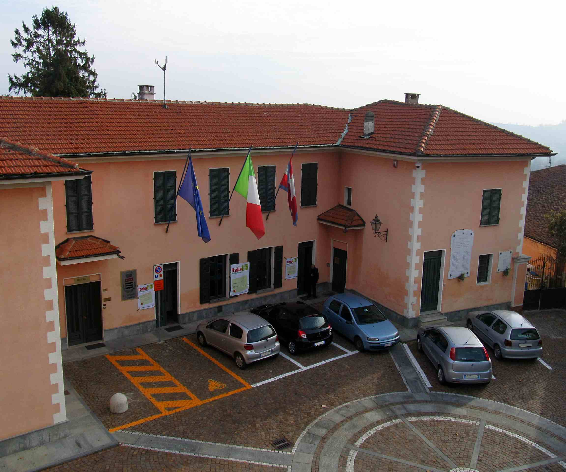 Baldissero Torinese (Italy): town hall